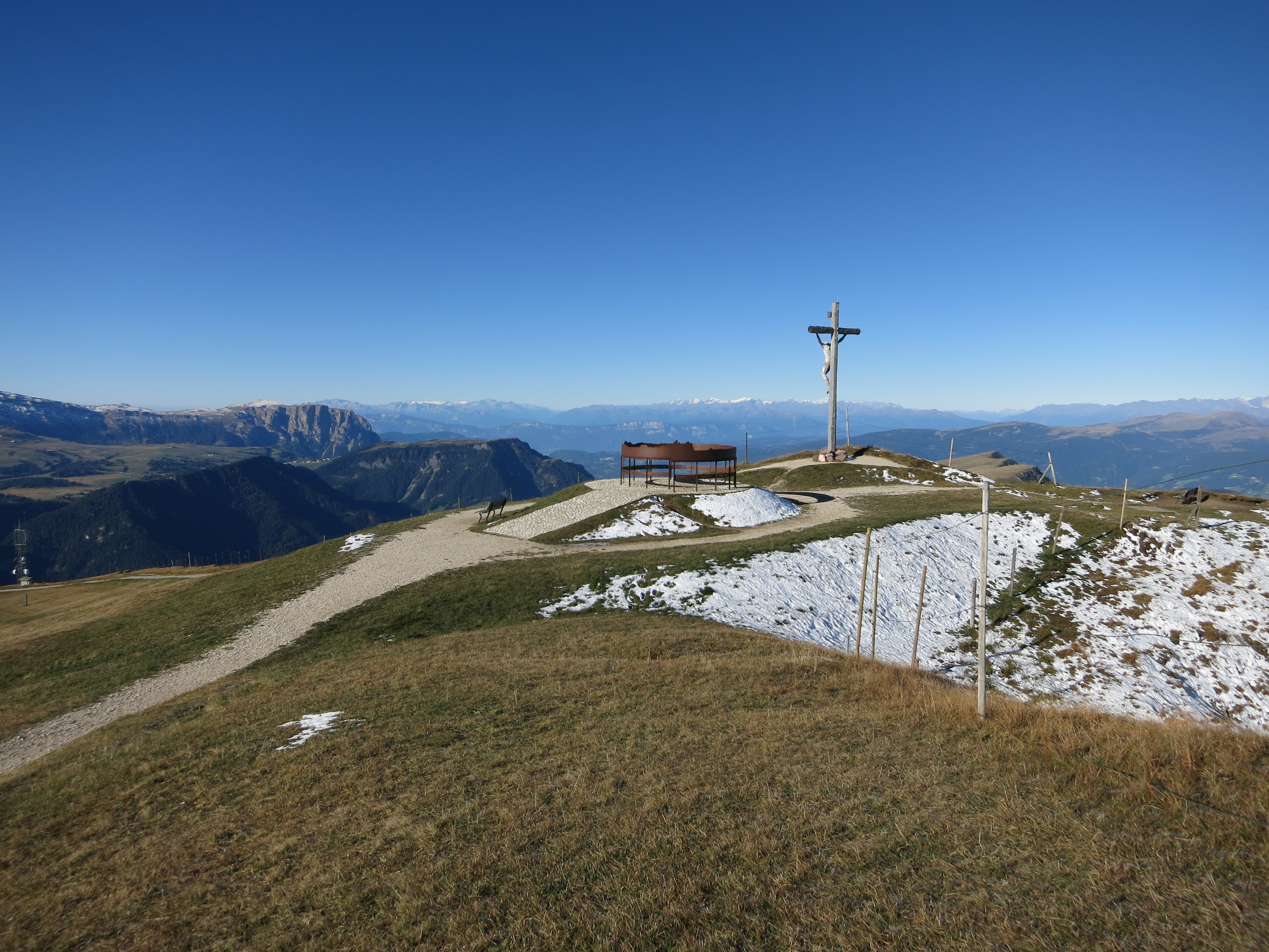 On top of mountain Seceda, Südtirol